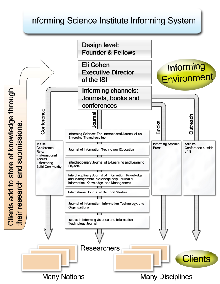 The activities of the Informing Science Institute represented as an informing system